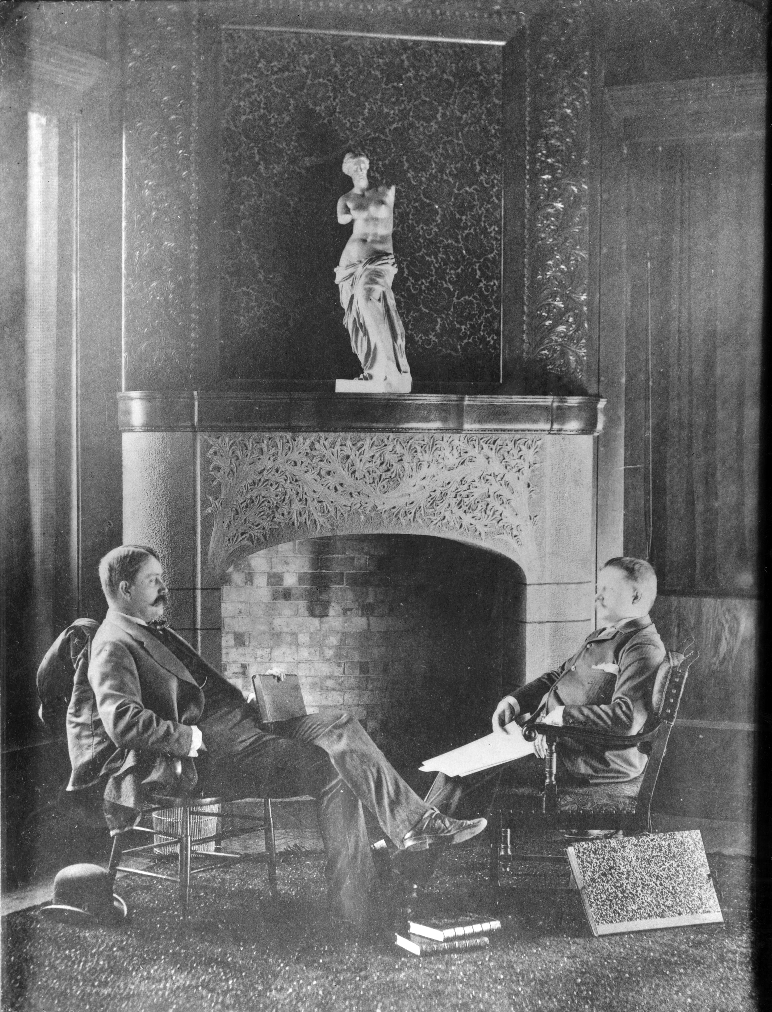 Architects Daniel H. Burnham and John W. Root moved their firm to the Rookery Building, where, not long before Root's untimely death, they sat for this carefully posed portrait of a successful partnership.